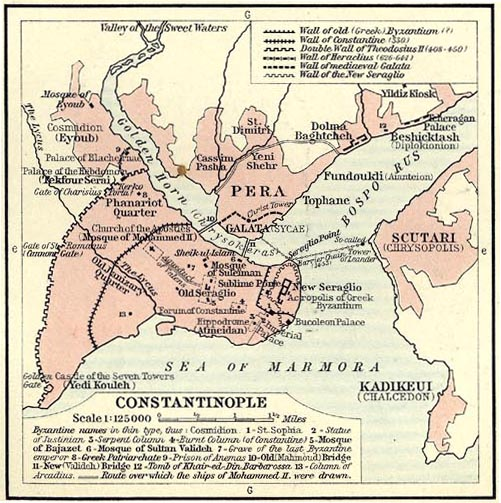 (1911) Shepherd, William R. The Ottoman Empire, 1451-1481 and Constantinople., p. 93